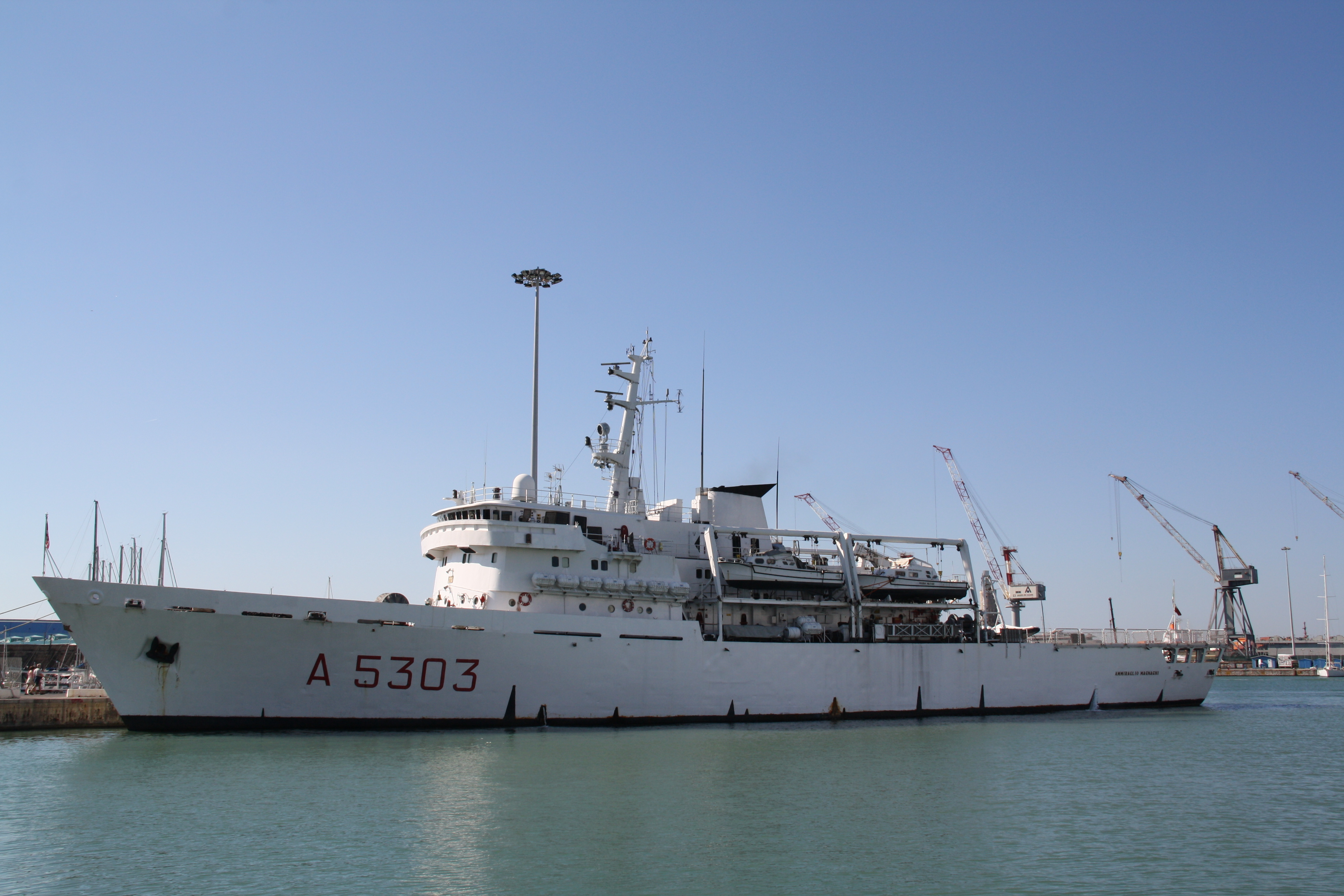 Italy, Marina Militare. The oceanographic ship Magnaghi (A 5303) is the first of this kind to be designed and built in Italy for the Marina Militare. Built by Riunited Shipyards at Riva Trigoso has been launched on October 8, 1974, completed and entered in service on May 2, 1975. In 1990 underwent complete modernization. Here is berthed in the Port of Livorno at “Andana degli Anelli” wharf of “Porto Mediceo”.